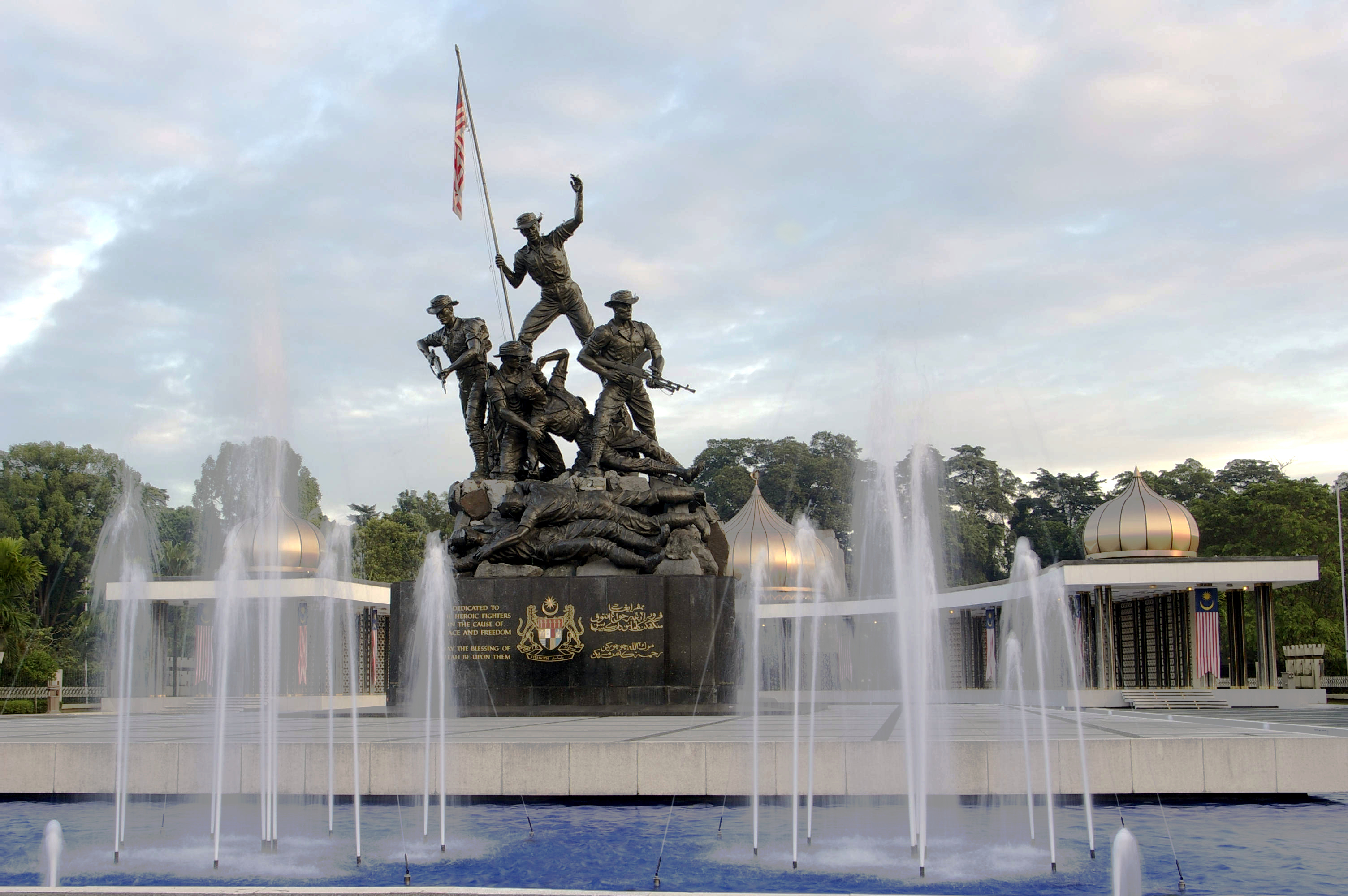 The National Monument (Tugu Negara) of Malaysia